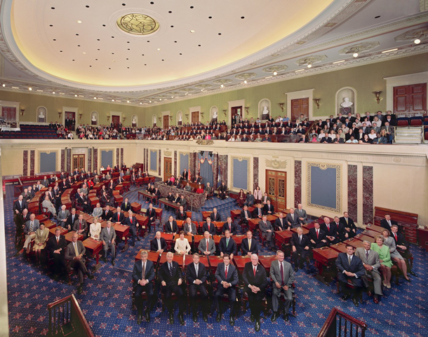 Work of the United States Senate, Credited to the US Senate Photo Studio.